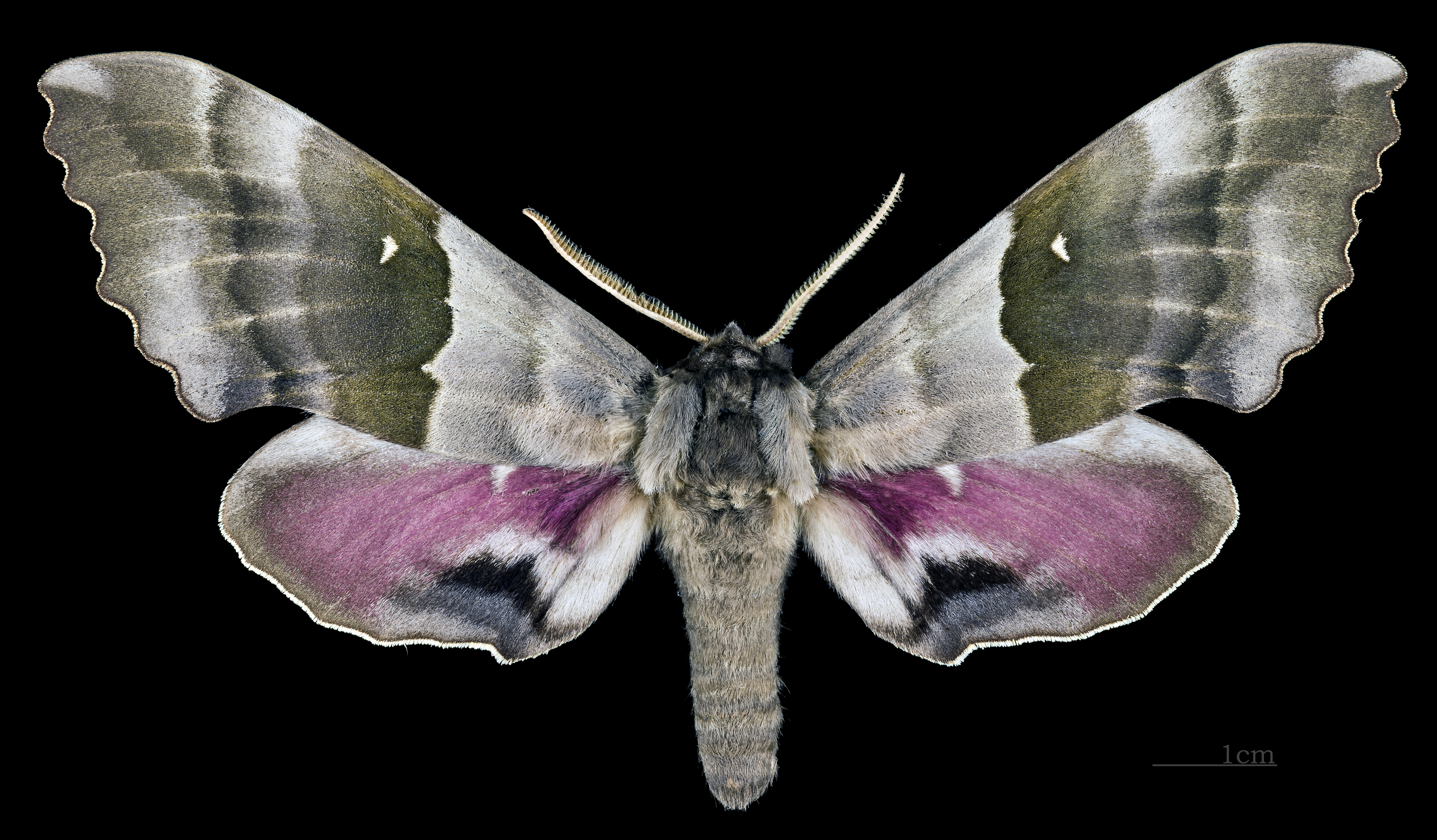 Big Poplar Sphinx - Dorsal side Collection of the Mathematician Laurent Schwartz